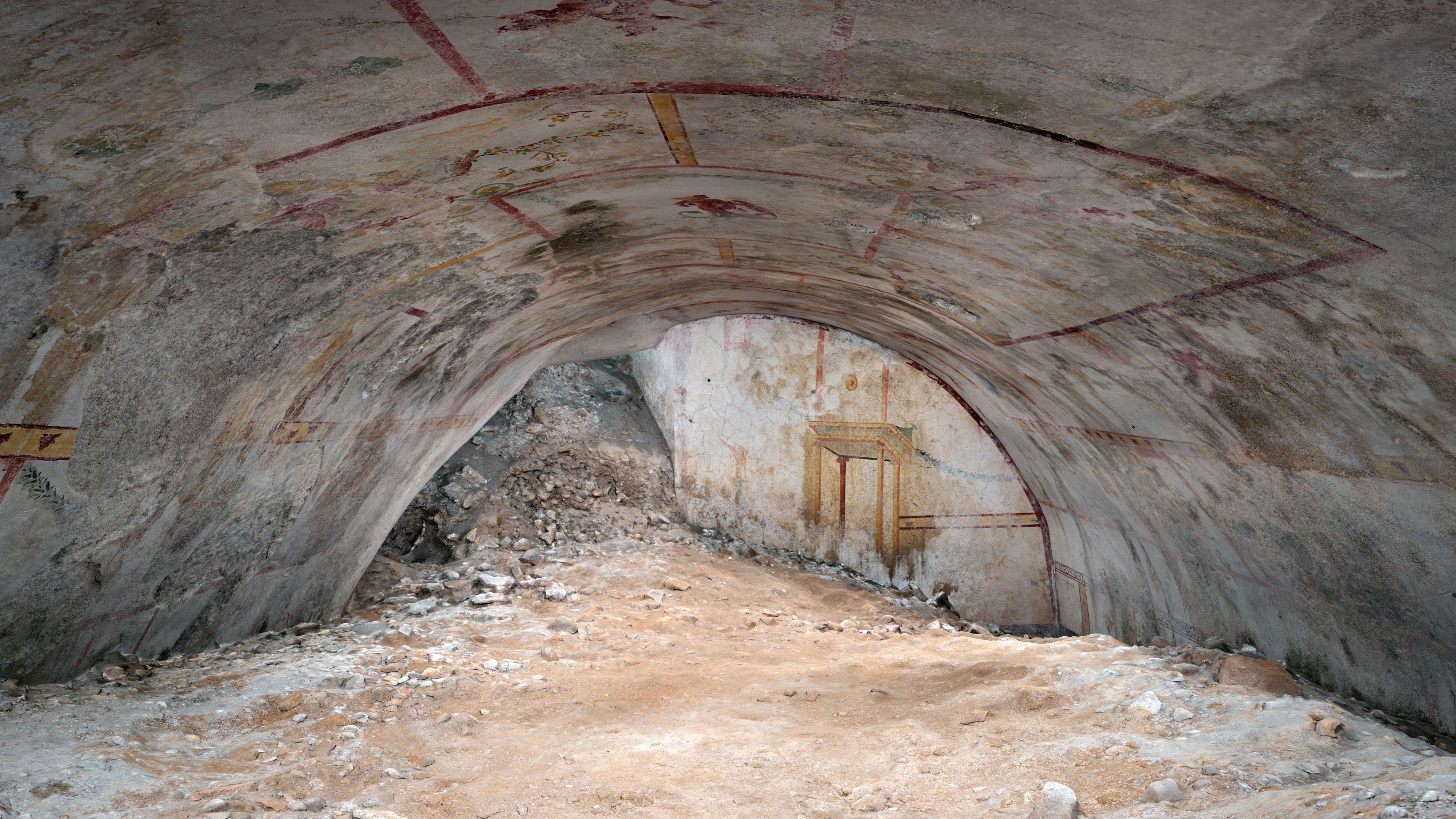 Sala della Sfinge (Sphinx Room), Domus aurea, Rome.